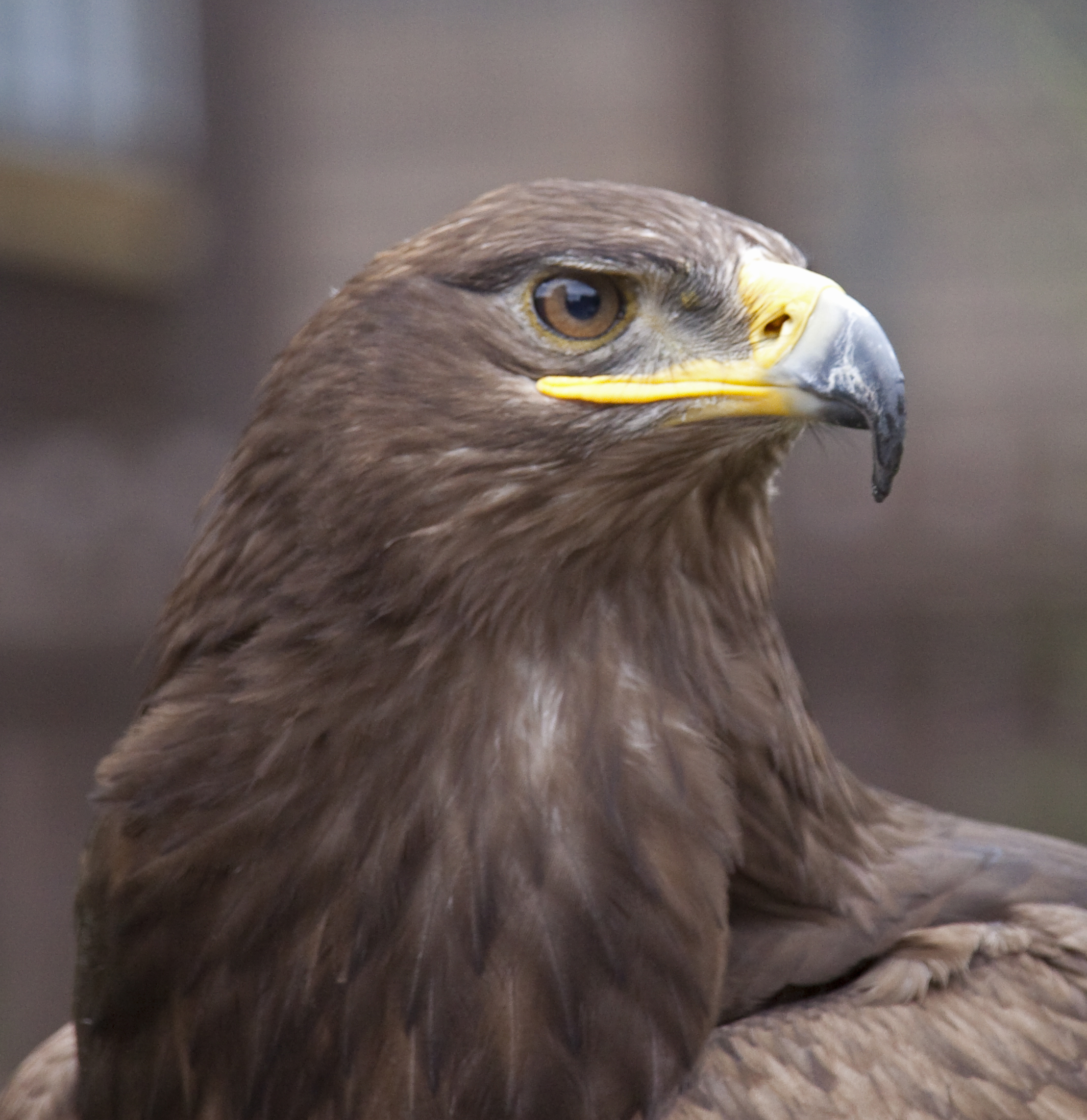 Seen at the Falconry Centre, Hagley